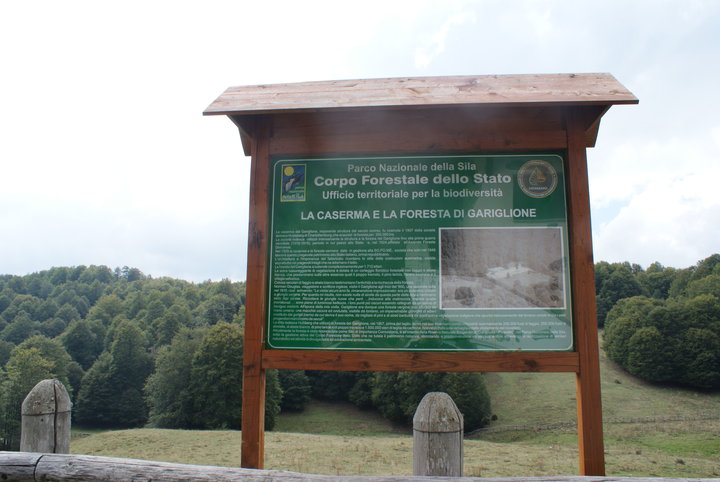 Sila National Park - The barracks and the forest of Gariglione Mountain